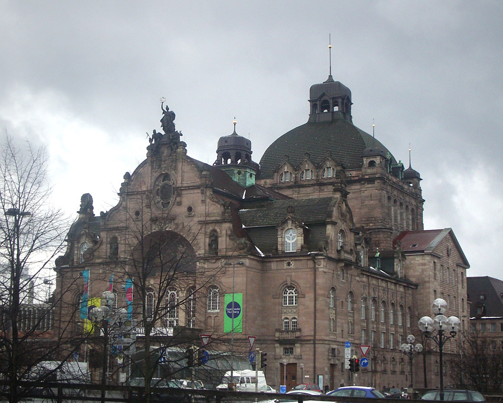 Nuremberg, Germany: State Theatre, opera house